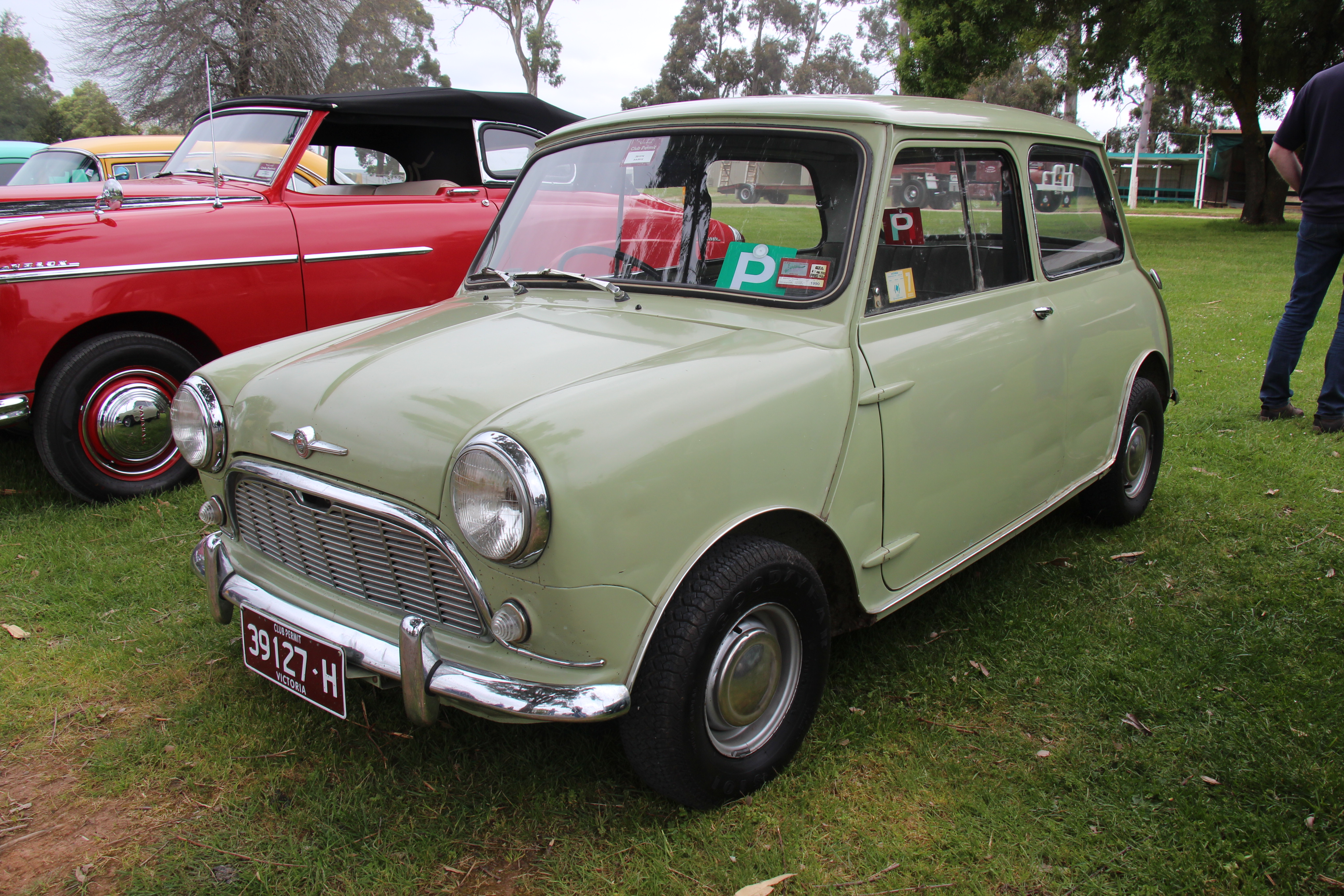 The Mk I Mini was built from 1959-67, Morris and Austin versions. In 1959 they were called the Morris Mini Minor and The Austin 7, then called the Morris Mini and Austin Mini from 1961. The new Mini was a very influential design, with its transverse engine, front wheel drive and independent suspension. It featured the 1st 10 inch wheels, sliding side windows with storage pockets below. From 1964, the front valance was cut away on each side to aid in brake cooling 2 door only, in Saloon, Estate, Van, Pickup and Moke. Also the performance Cooper and Cooper S and upmarket Wolseley Hornet and Riley Elf Also built in Australia from 1961, From 1965 Australian Minis were fitted with wind-up windows years ahead of their UK counterparts. Morris Mini Coopers and Cooper S were also made and supplied to the Australian and New Zealand Police forces as high speed pursuit vehicles Engines; 850, 1000, 1100 and 1275